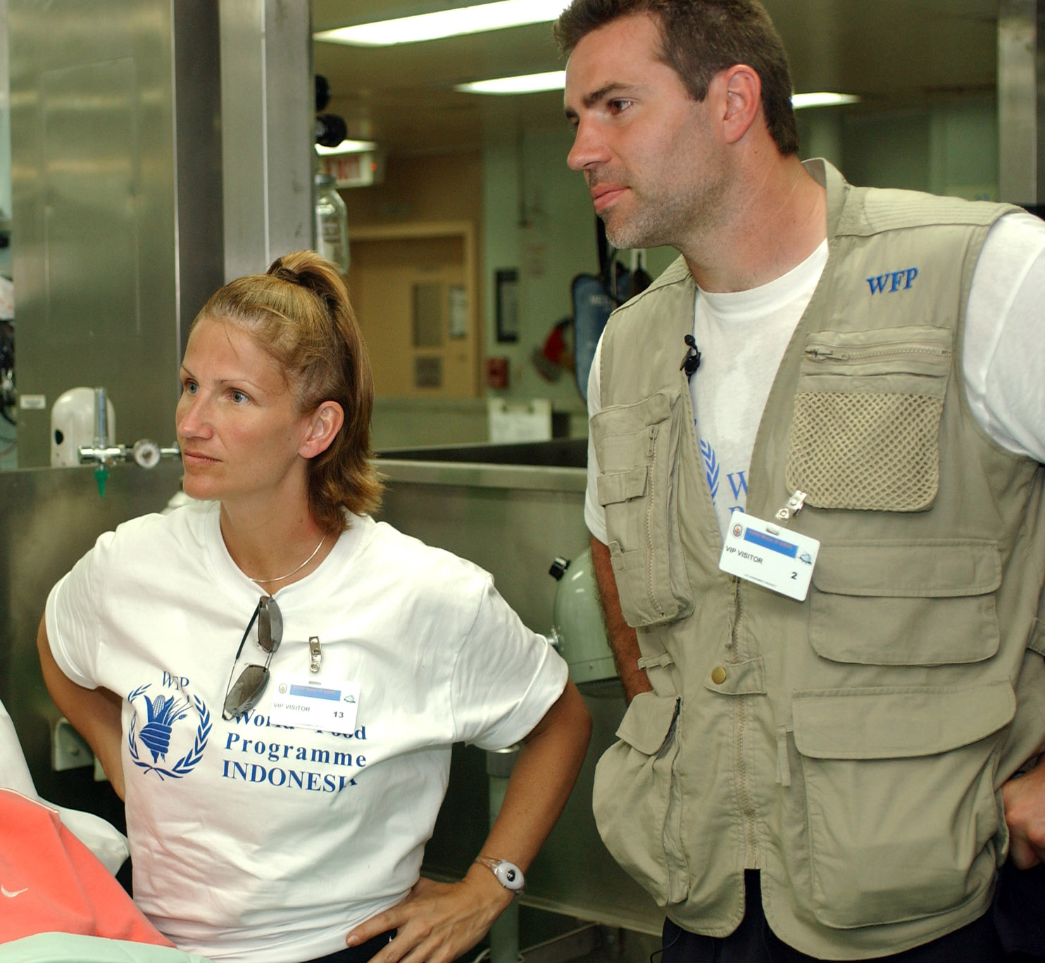 Indian Ocean (Feb. 12, 2005) - New York Giants quarterback Kurt Warner, and his wife, Brenda Warner, listen as they are explained the medical capabilities of the Military Sealift Command (MSC) hospital ship USNS Mercy (T-AH 19) as they visit an injured Indonesian boy. Warner and his teammate, Giants wide receiver Amani Toomer, visited the crew and patients aboard the hospital ship. Mercy is currently off the waters of Indonesia in support of Operation Unified Assistance, the humanitarian relief effort to aid the victims of the tsunami that struck Southeast Asia.